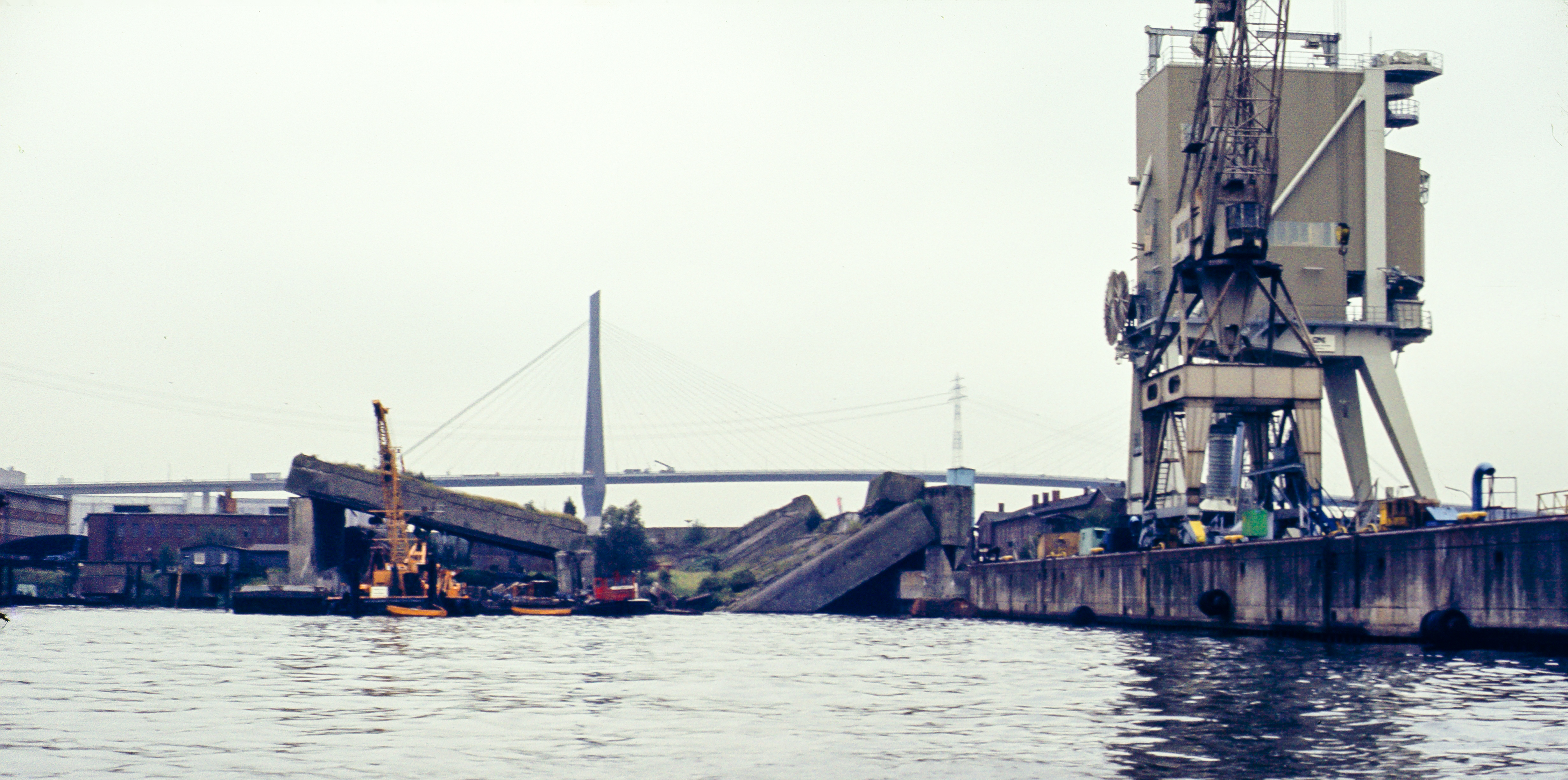 Former submarine bunker in Port, Hamburg, Germany